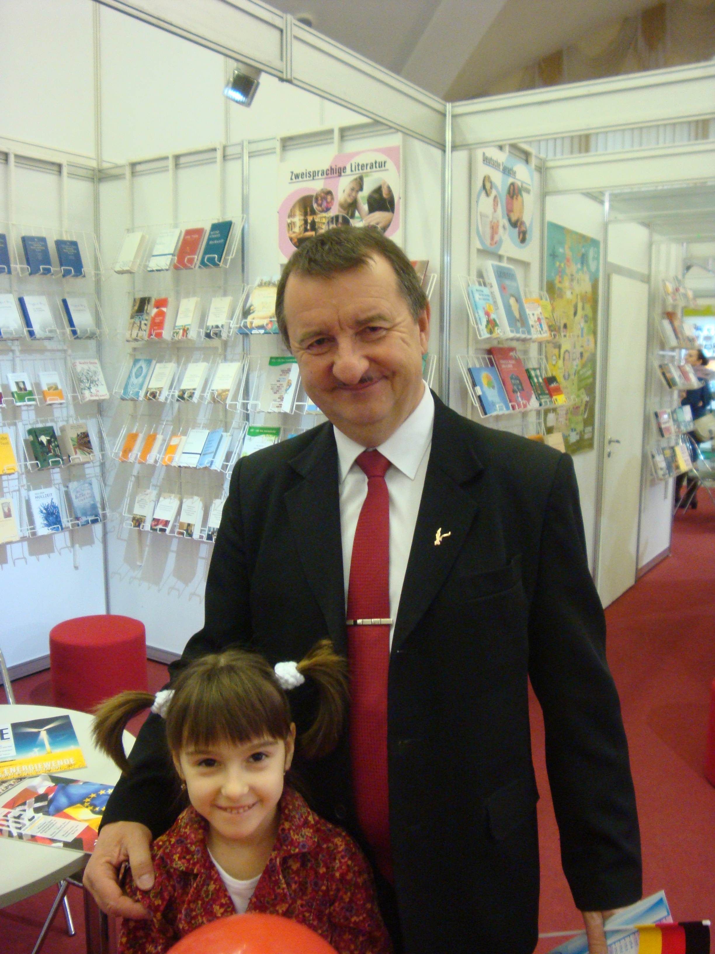 a belorussian comedian and actor Jaugen Anatolevich Kryzhanouski and his daughter -- on XXII International book exhibition in Minsk city (Belarus). 14 February 2015 AD